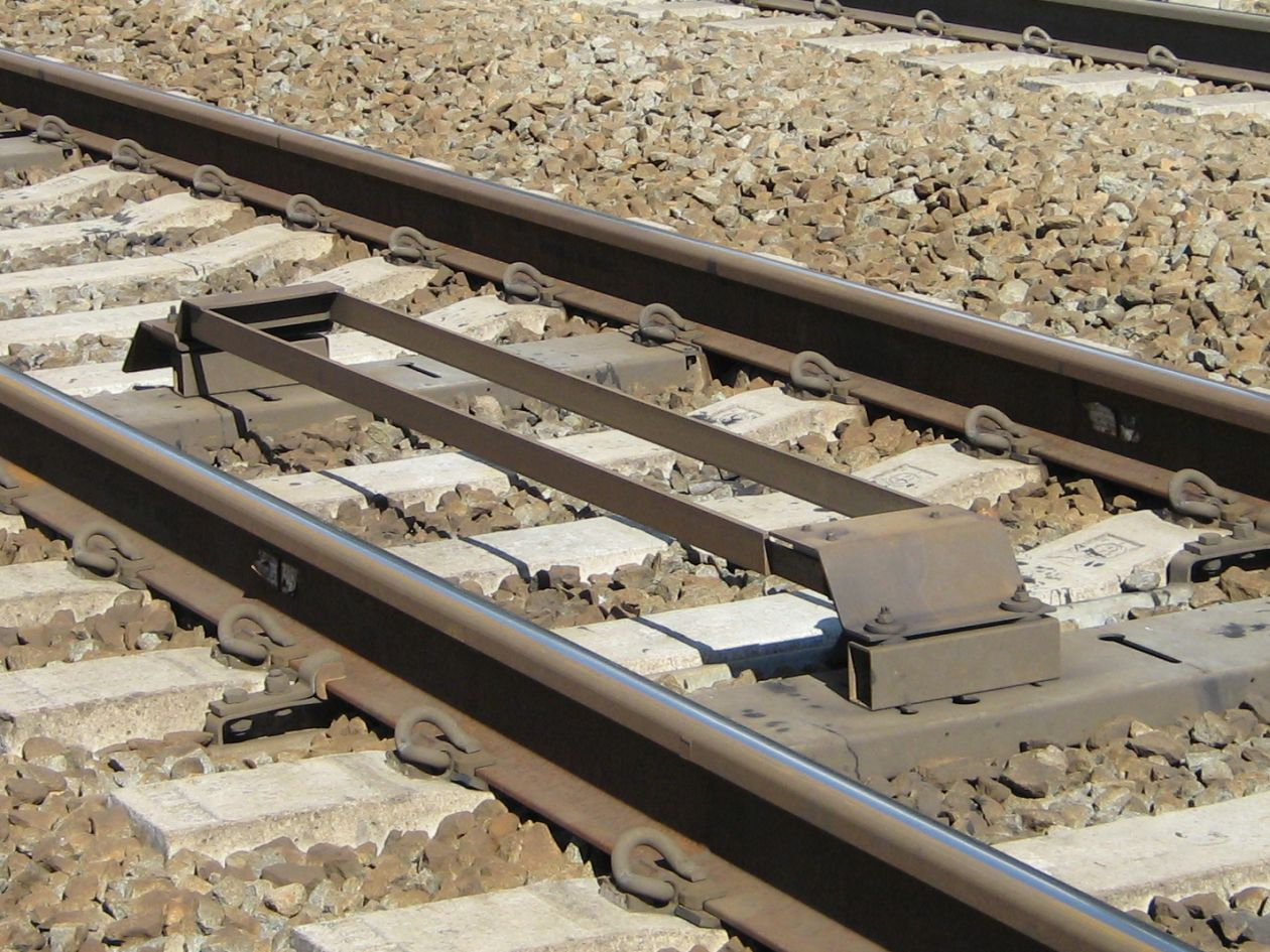 TBL2 balise in Leuven.